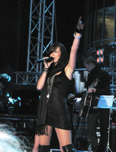 Katerine Avgoustakis in Warsaw, August 2009